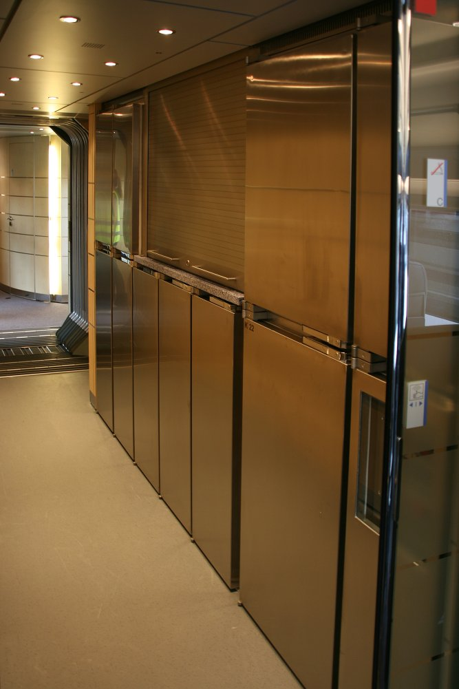 Galley on the club class car on the Velaro E high-speed train